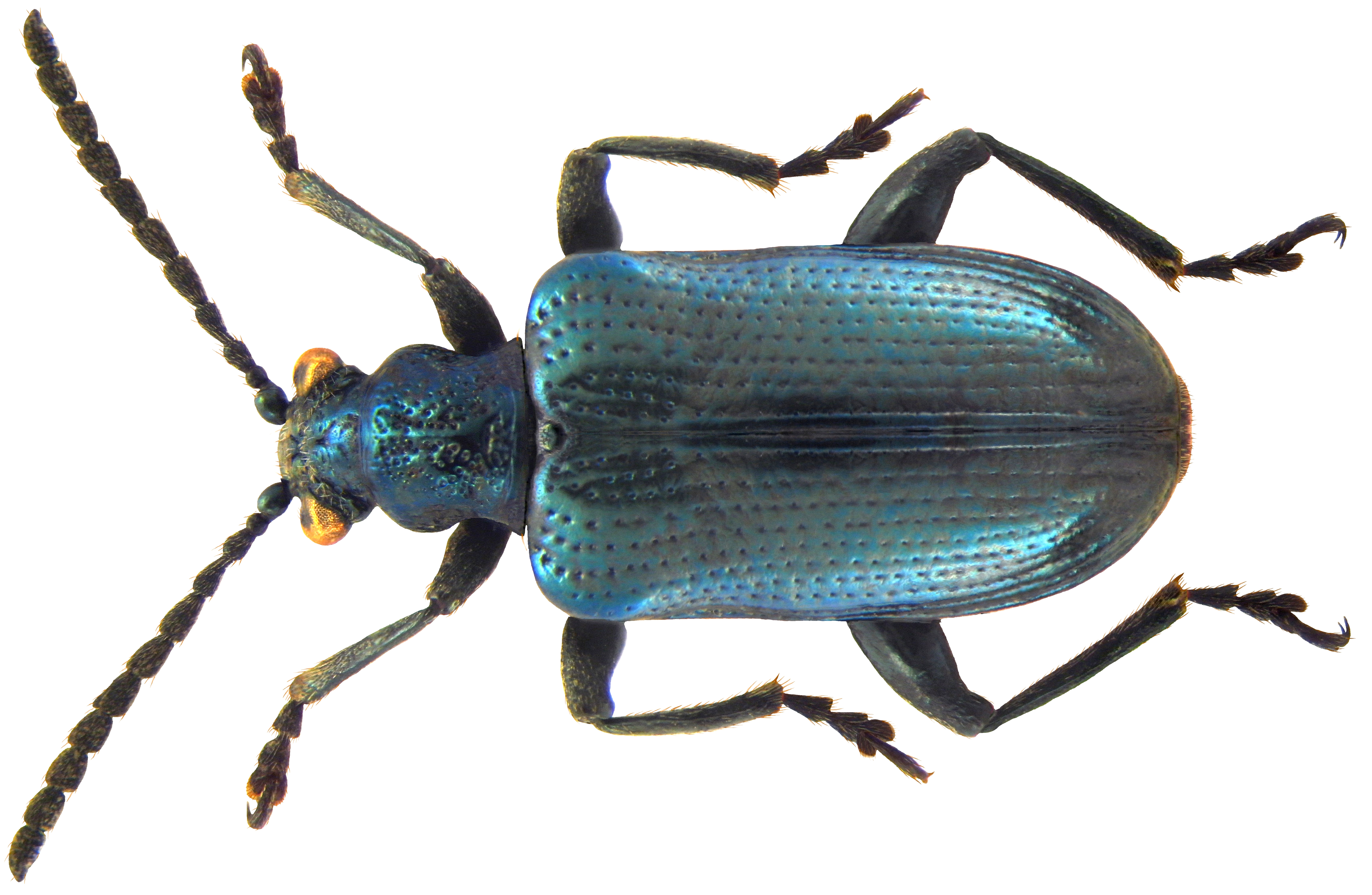 Family: Chrysomelidae Size: 4-5,5 mm Origin: Europe Ecology: on Cirsium species Location: Germany, Bavaria, Upper Franconia, Selby leg det. U.Schmidt, 1973 Photo: U.Schmidt, 2010